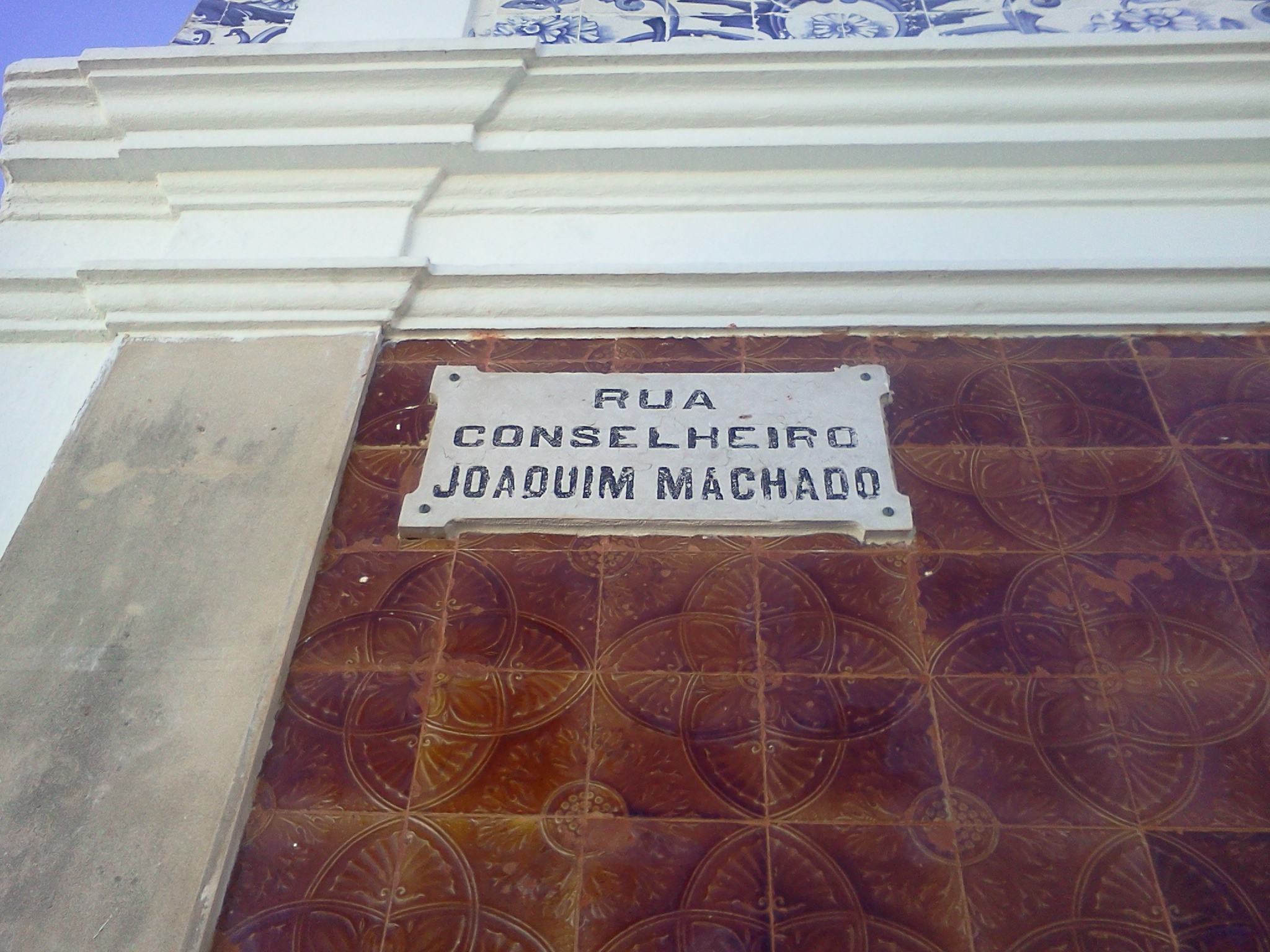 Street sign of Rua Conselheiro Joaquim Machado, in the city of Lagos, in southern Portugal.